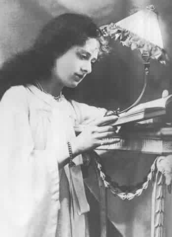 Photo of Isabel Jay as Mabel in The Pirates of Penzance1897.